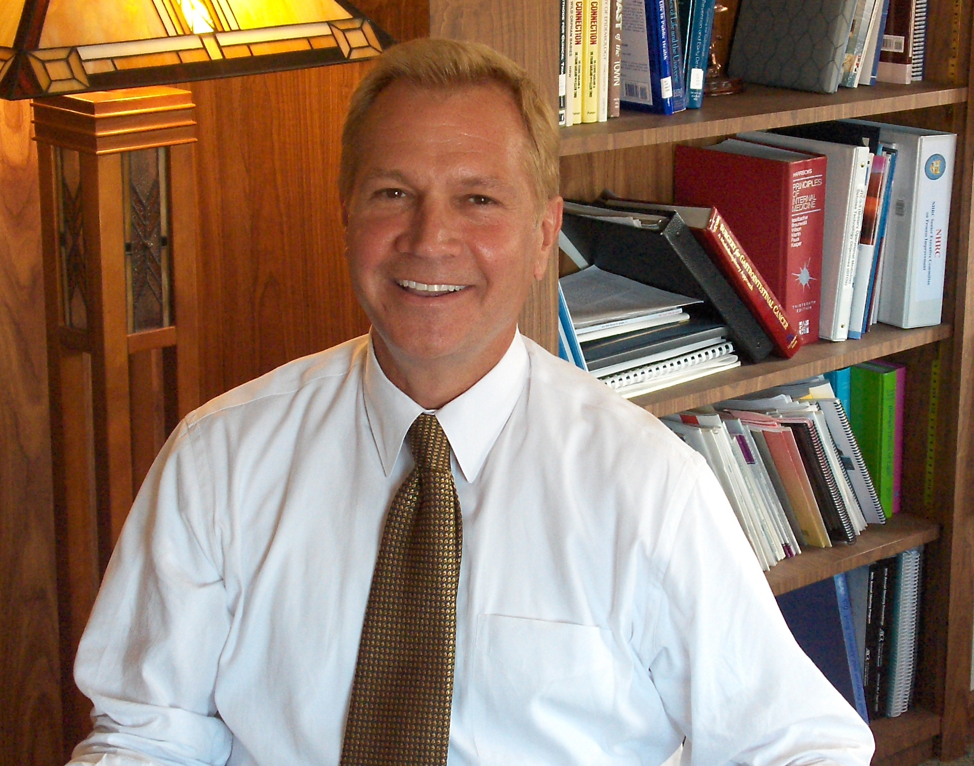 Photo of Dr Frank Garland